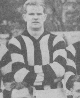 Photograph of Bob Galbally in 1944